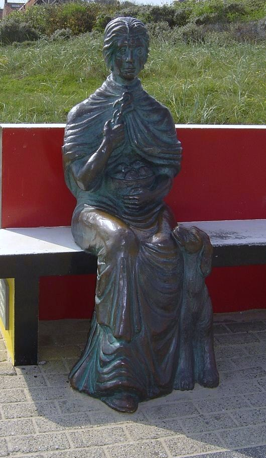 Modern statue of pre-Celtic fertility and mothergoddess Nehalennia, bronze, incorparated in the "Mondriaanbank" by Guido Metsers 1989, located Boulevard van Schagen Domburg viewed towards the south, close-up